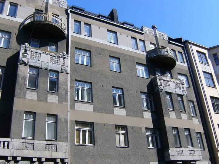 Liisankatu 17 (Onni Tarjanne, 1910), "Karjalaisten talo" ("The House of the Carelians"), Helsinki, Finland